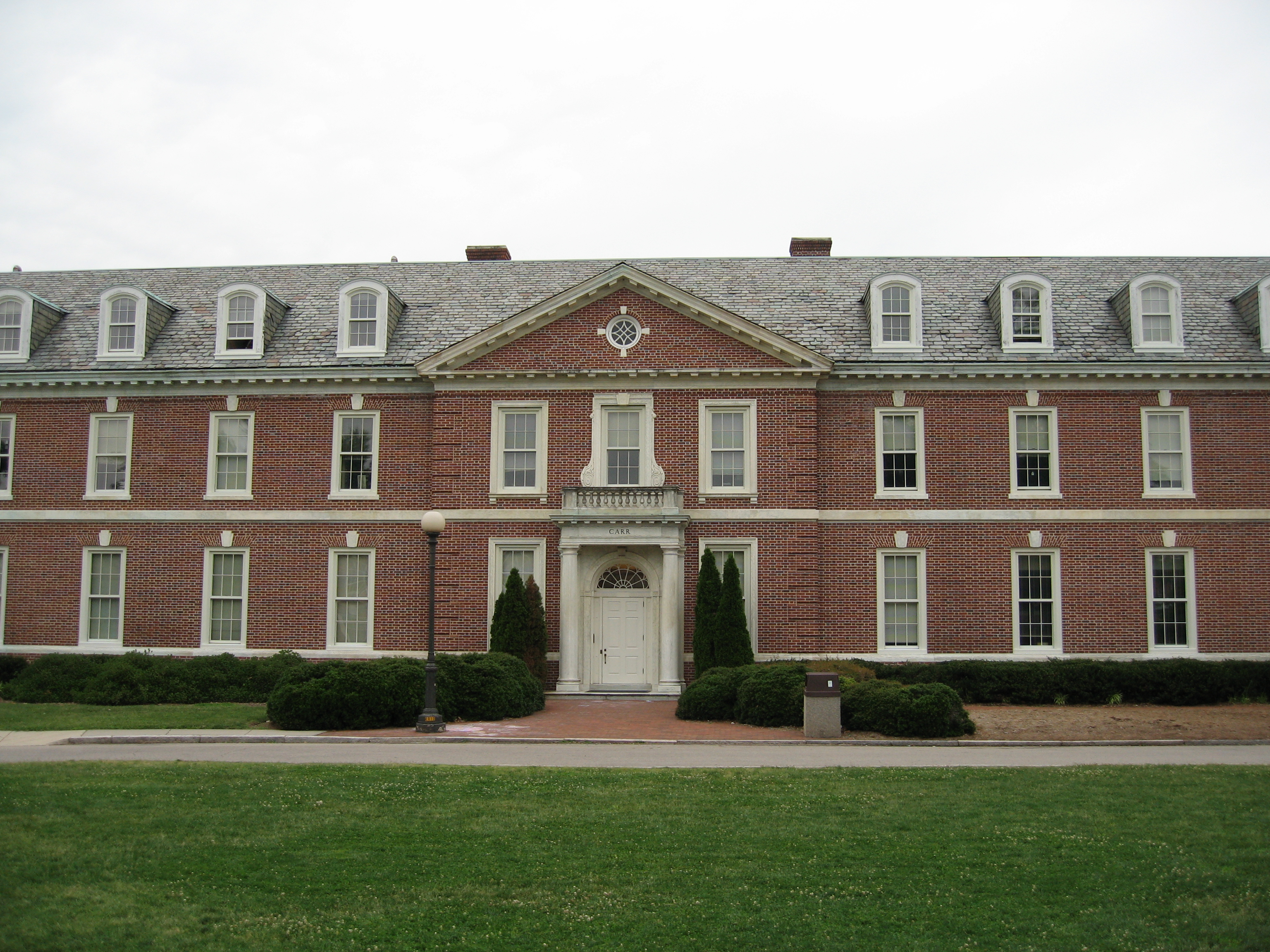 Carr on Duke's East Campus